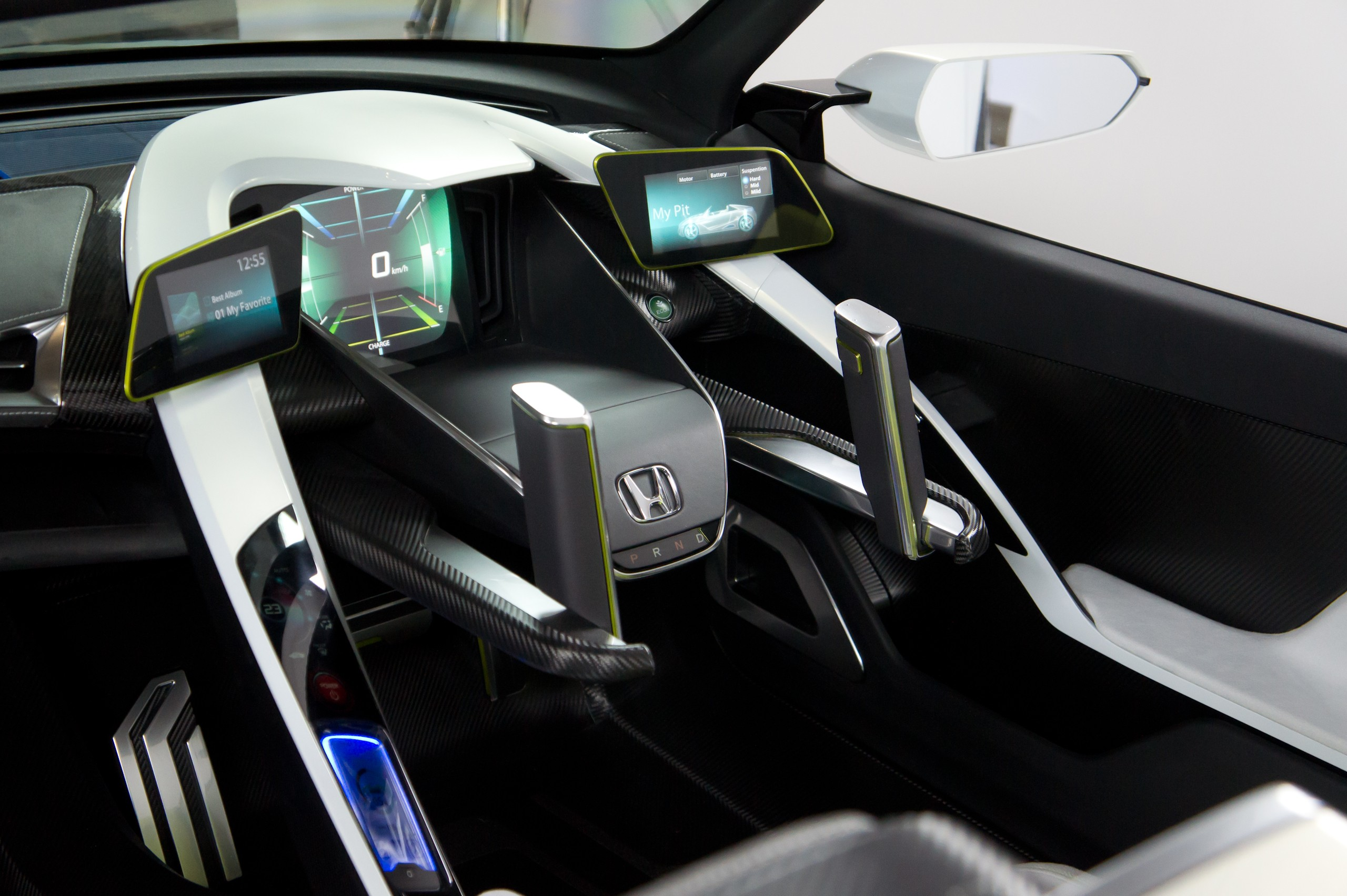 Tokyo Auto Salon 2012: Honda EV-STER "Twin Lever Steering" cockpit